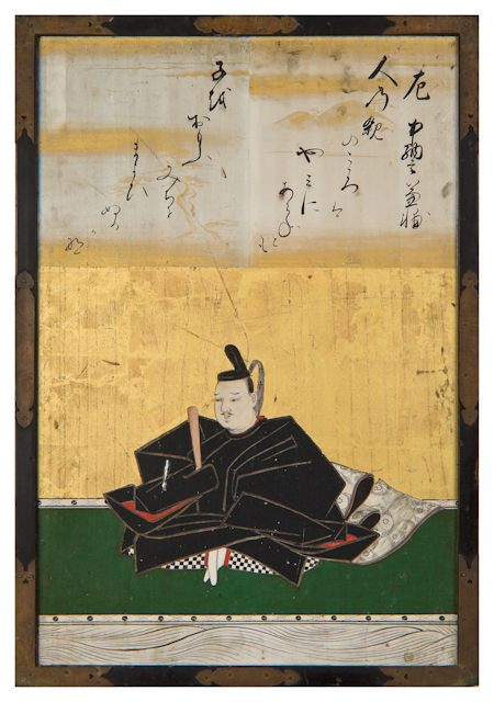 Sanjūrokkasen-gaku (Thirty-six Poetry Immortals framed picture) #13: Chūnagon Kanesuke (Fujiwara no Kanesuke)